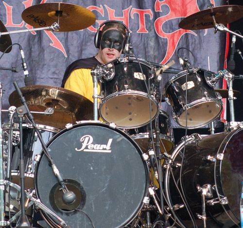 Duke of Drumington (2008)